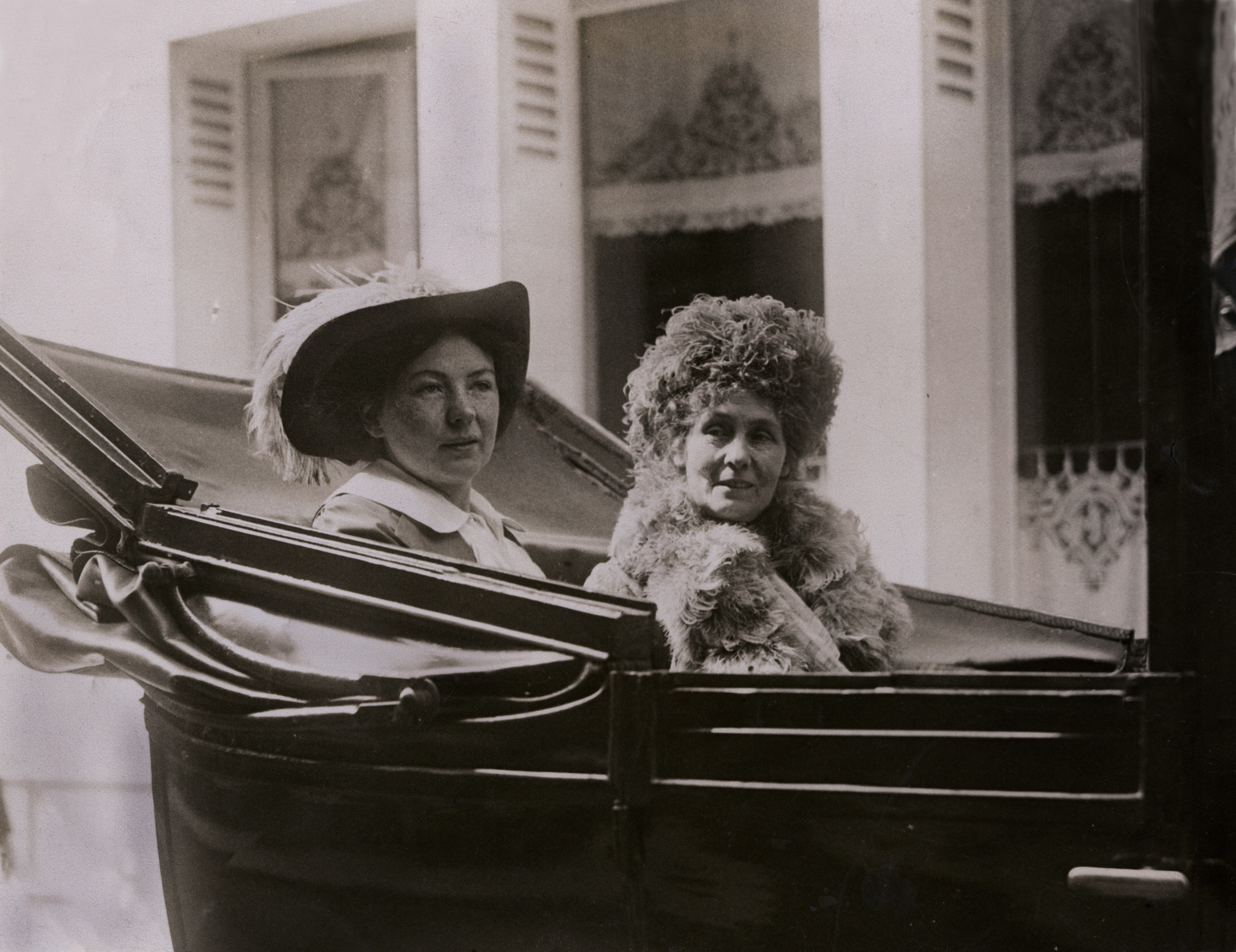 7JCC/O/02/119 Photograph, printed, paper, monochrome, Christabel Pankhurst seated in an open carriage beside her mother; typed caption on reverse 'The Very Latest Portrait of Mrs Pankhurst, who is leaving France on Saturday 'Provence' from Havre. Mrs Pankhurst is reported to receive large sums for her lectures. Our Picture was taken in Paris last week', also printed 'Record Press, 29 Fetter Lane, London EC'. The image has been trimmed